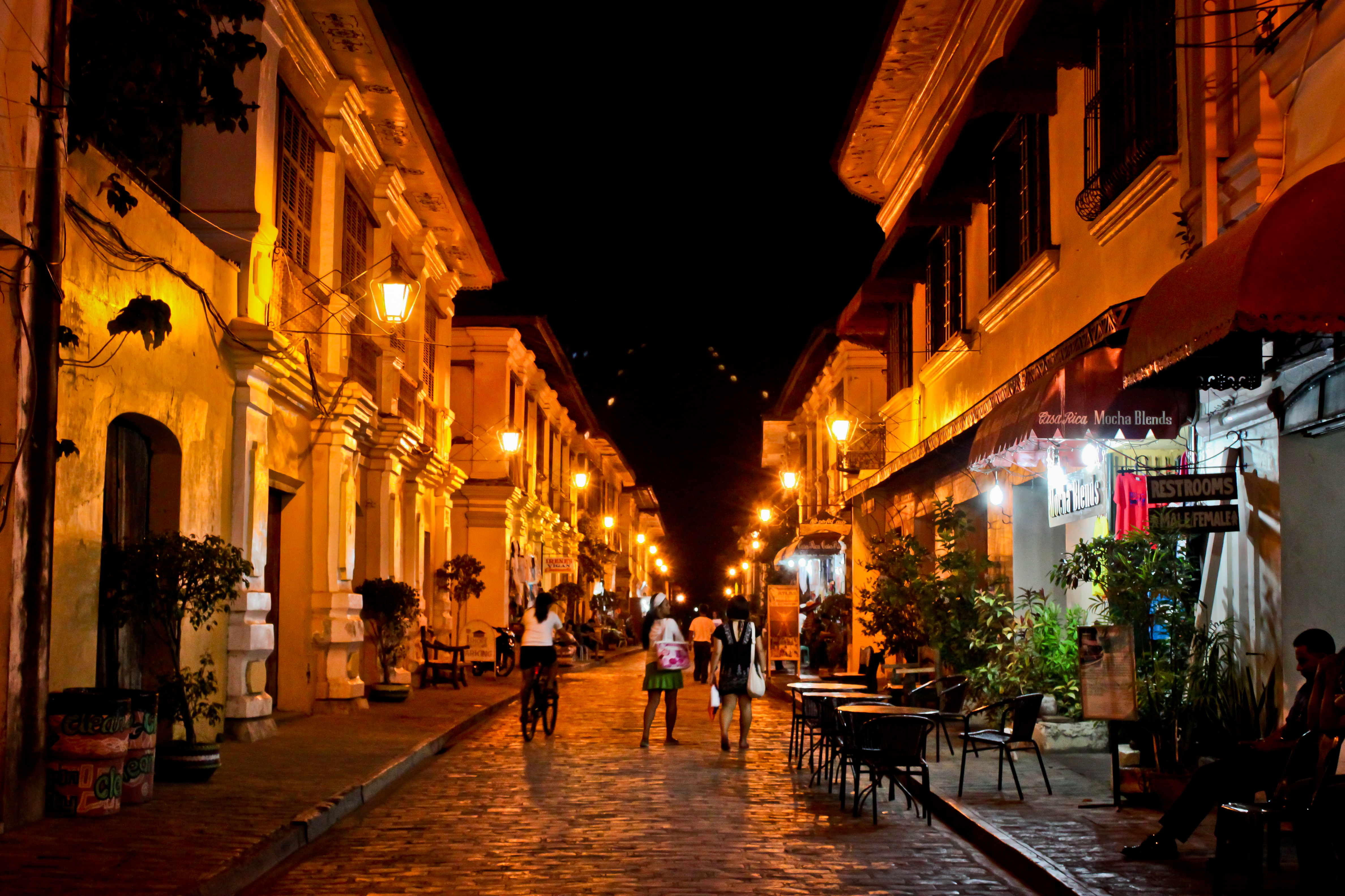 VIGAN